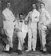 Explorers and ethnographers Hiram M. Hiller, Jr. (far left), William H. Furness, III, and Alfred C. Harrison, Jr., along with Lewis Etzel, Furness' assistant. Sources appear to differ as to whether Furness or Etzel is seated. Photographed 1898 in Singapore.NOTE: The University of Pennsylvania Museum of Archaeology and Anthropology lists the figures as (left to right): Hiller, Etzel (seated), Furness, Harrison.[1]